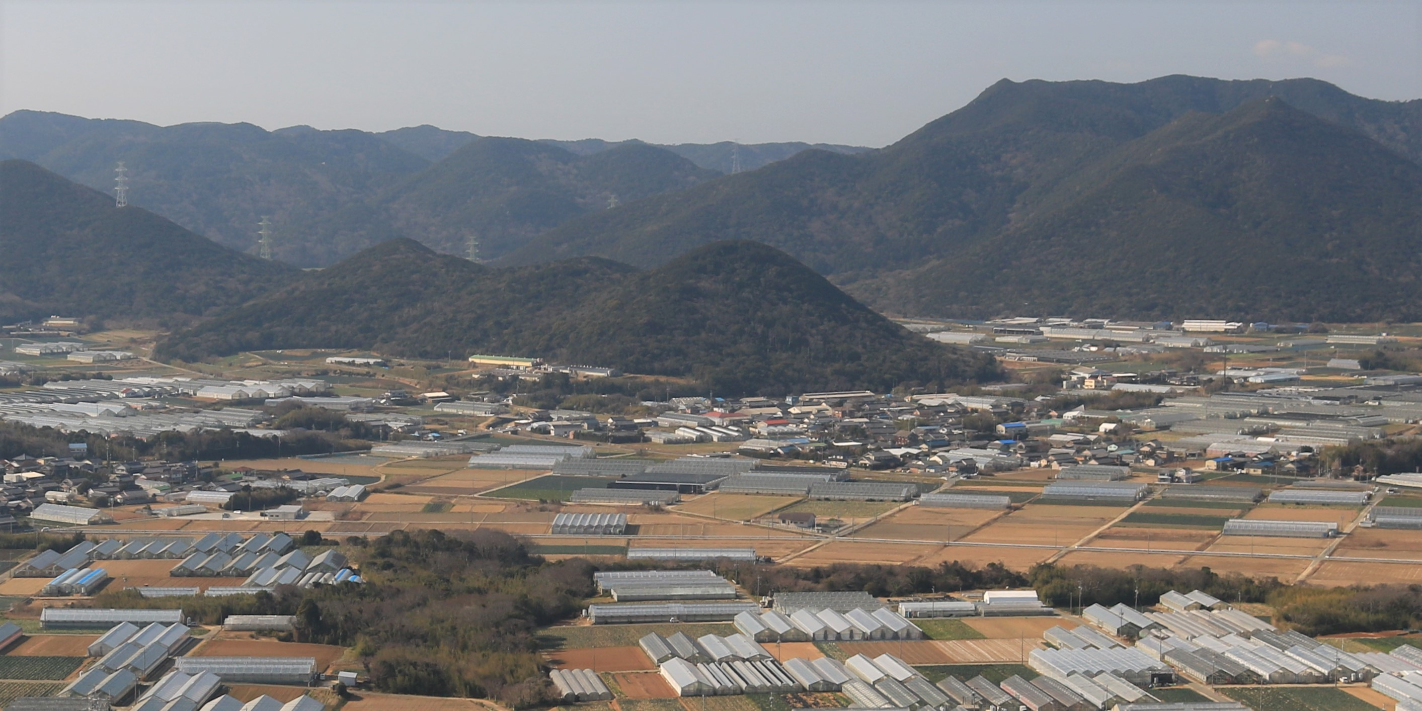 Muramatsu-chō, Tahara in Aichi Prefecture, Japan.